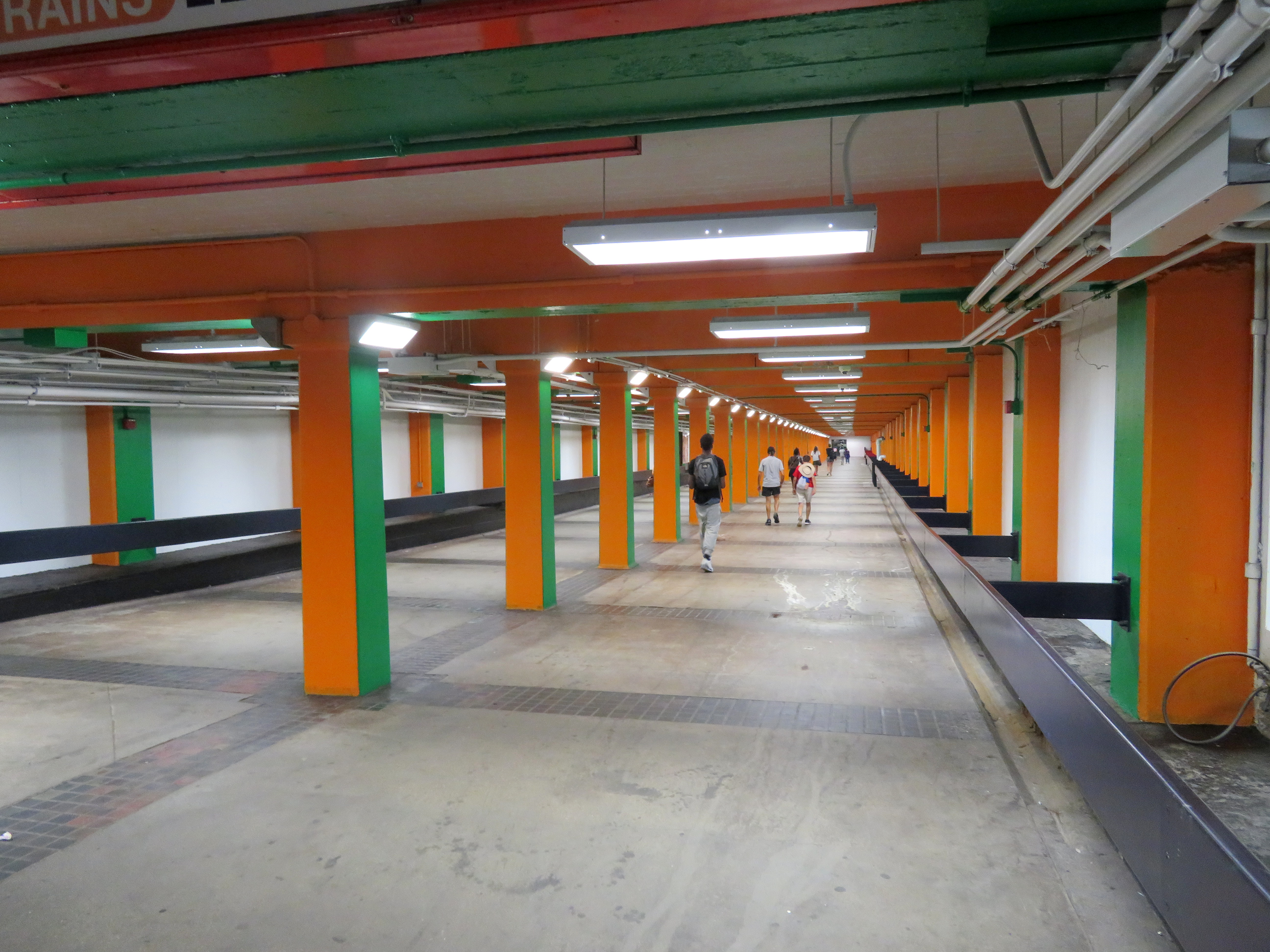 The Winter Street Concourse in August 2018, with the orange paint indicating the direction towards Downtown Crossing station and the Orange Line